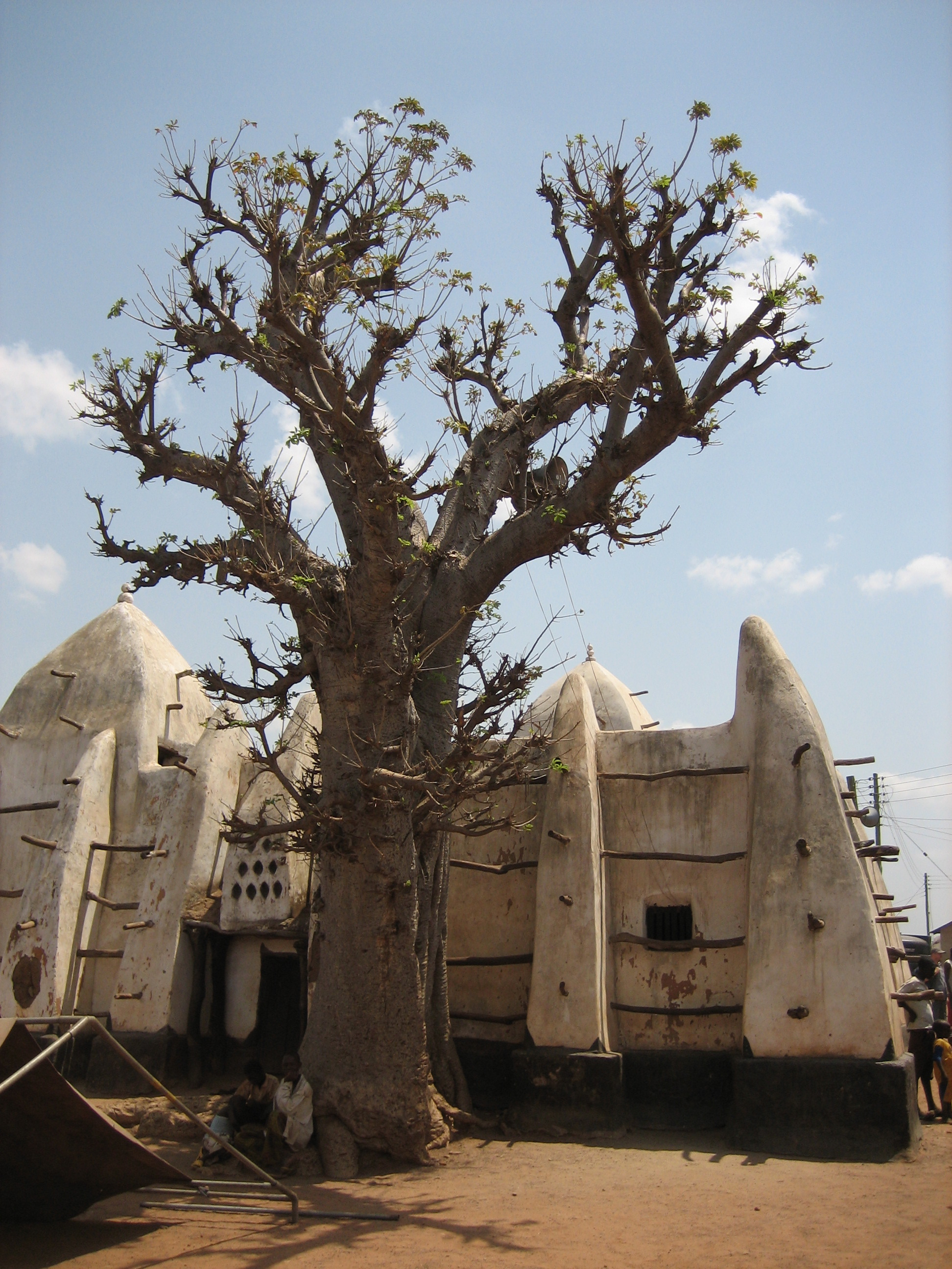 The mosque in Larabanga, Ghana.